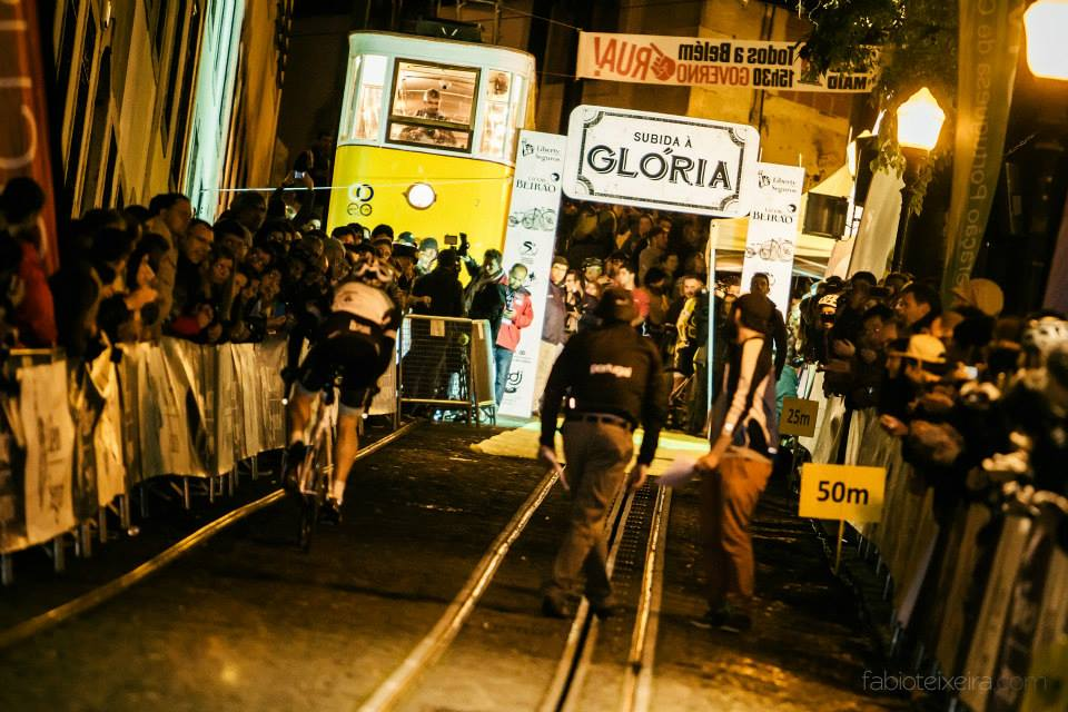 Publico na Subida da Glória 2013